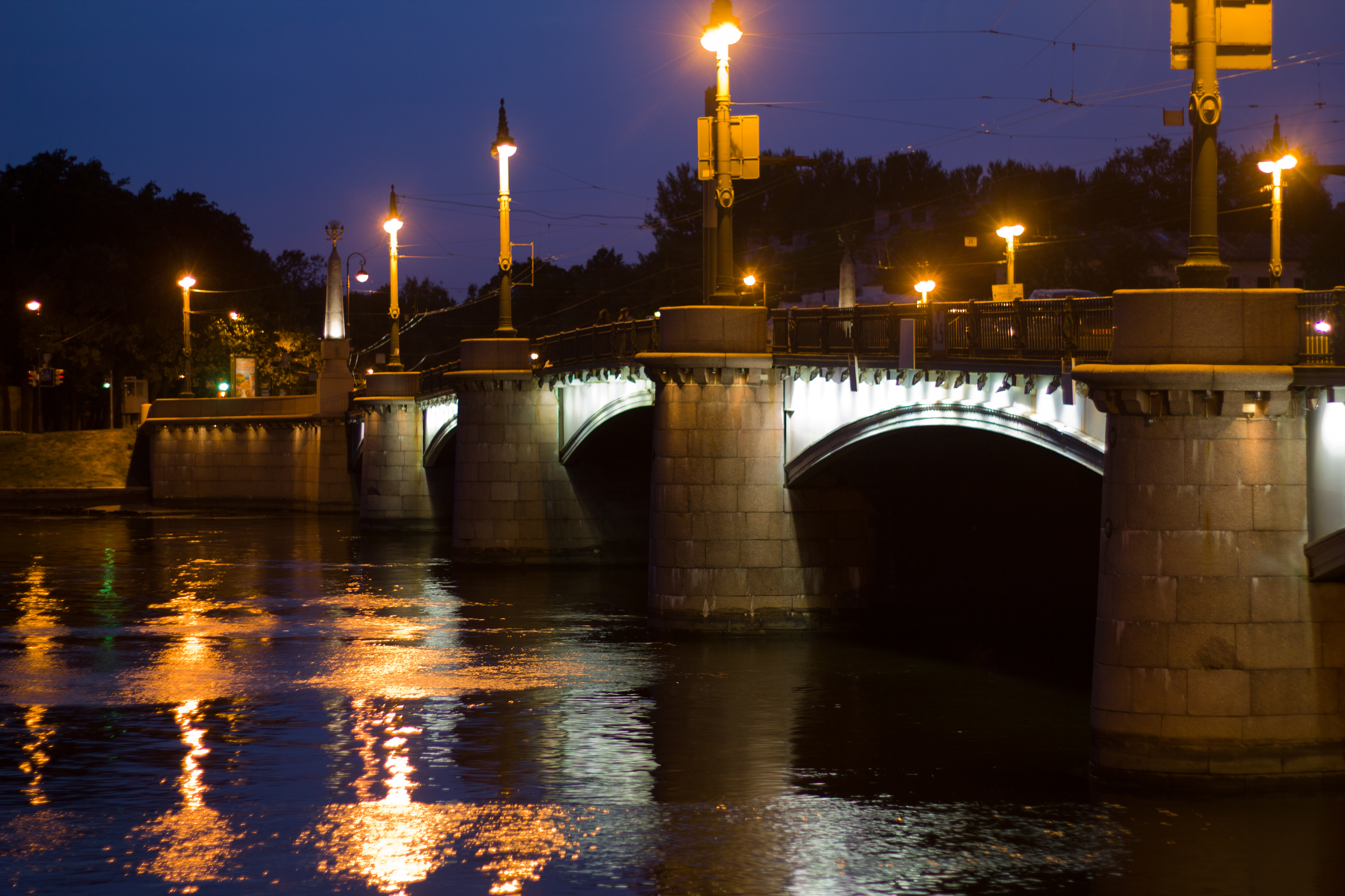 Kamenoostrovsky Bridge across Malaia Nevka in St Petersburg